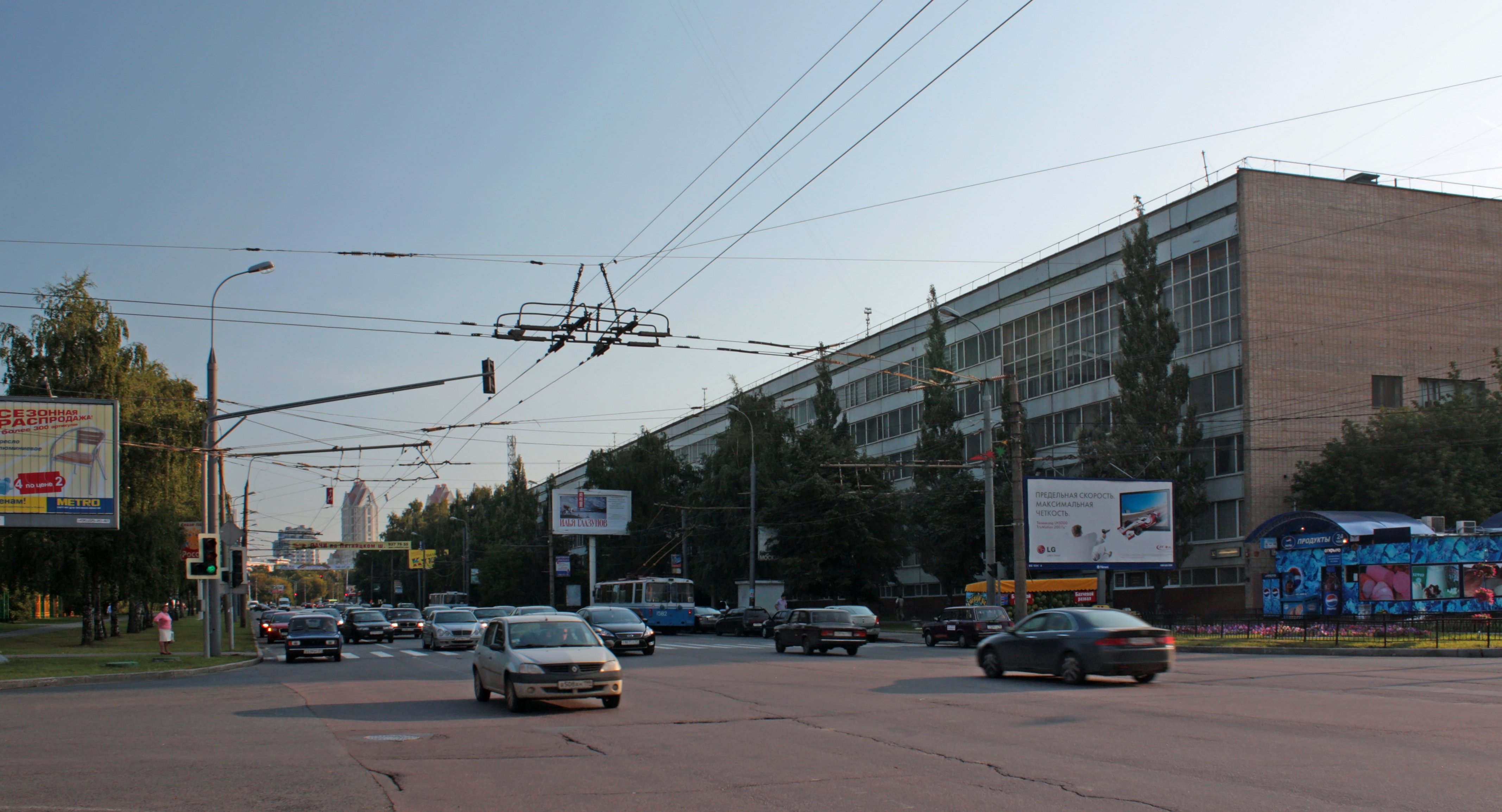 Moscow, Narodnogo Opolcheniya Street. A view from a crossroads from street of Marshal Tukhachevsky. In the foreground - the Moscow technical university of communication and computer science (MTUSI) (Narodnogo Opolcheniya Street, 32)